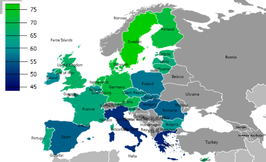 Percent of women in the workforce among all women aged 20 - 64 years in the European Union in 2011.